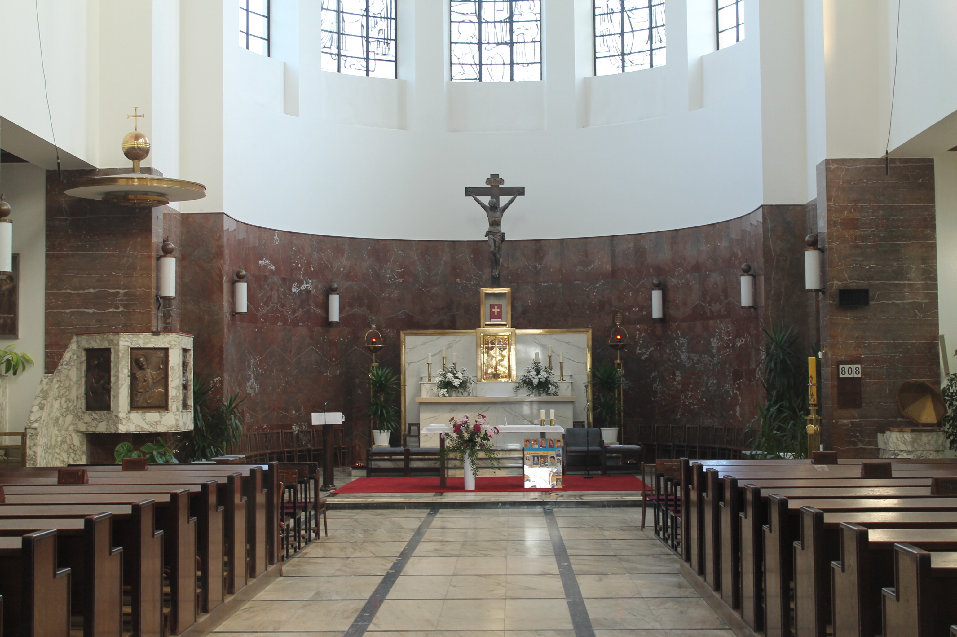 Church of Saint Augustine, Brno, Czech Republic - Google Maps - Google Earth